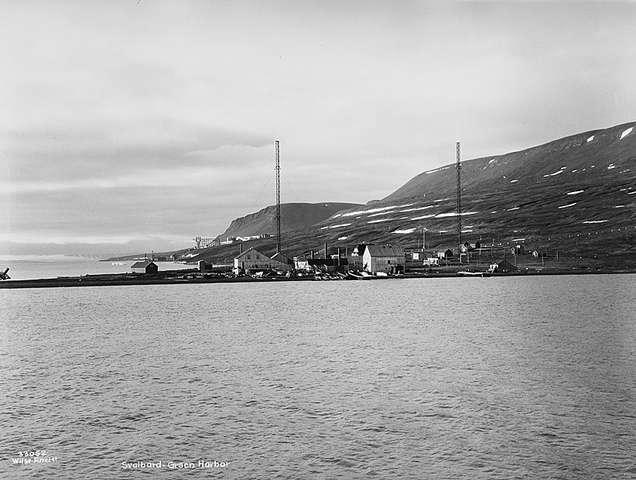 Settlement of Green Harbor, also called Ankershamn, in Svalbard, Norway